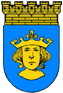 another version of the coat of arms of Stockholm. Based of Image:Stockholm arms of Saint Eric.png made by me, Fred Chess, and released into the PD. This representation of a coat of arms is potentially different from the one used by the armiger (municipality or organisation) in question. = ⇑“Sable, a lionrampant or” This coat of arms was drawn based on its blazon which – being a written description – is free from copyright. Any illustration conforming with the blazon of the arms is considered to be heraldically correct. Thus several different artistic interpretations of the same coat of arms can exist. The design officially used by the armiger is likely protected by copyright, in which case it cannot be used here.Individual representations of a coat of arms, drawn from a blazon, may have a copyright belonging to the artist, but are not necessarily derivative works. Further information: Commons:Coats of arms and Template:Coa blazon